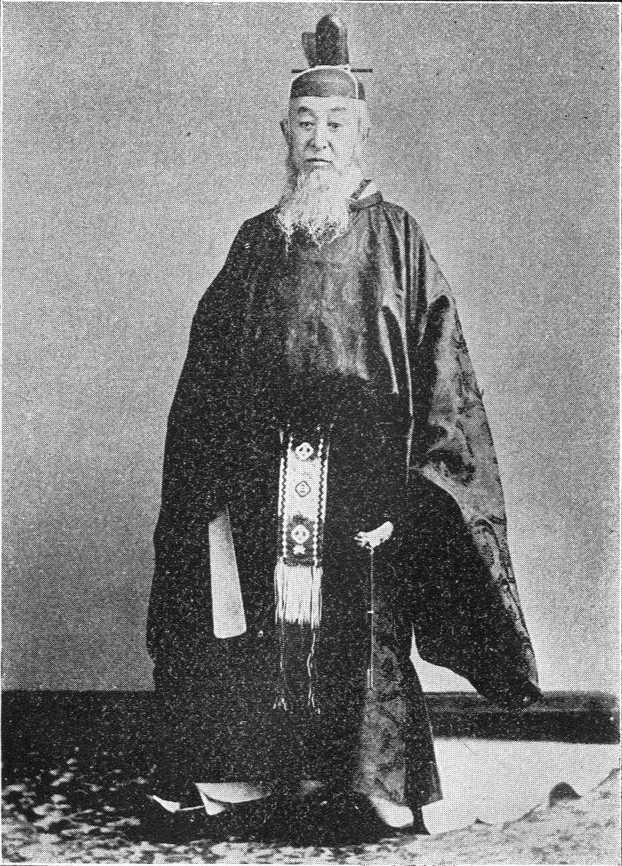 The Late Viscount Inaba Masakuni, Superintendent of the Jingu Sect, Shintoism